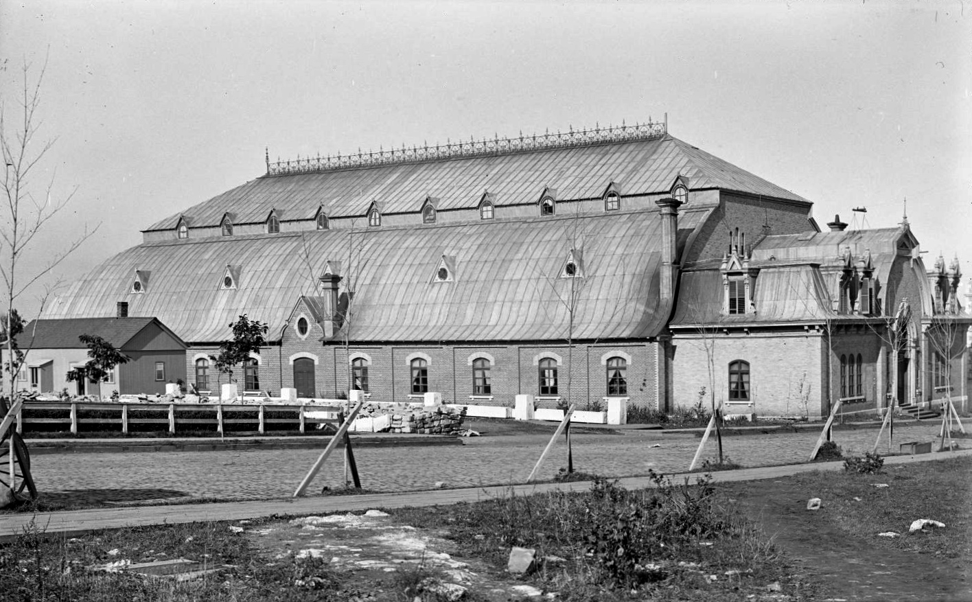 The third Quebec Skating Rink, on the north side of Grande Allée in Quebec City